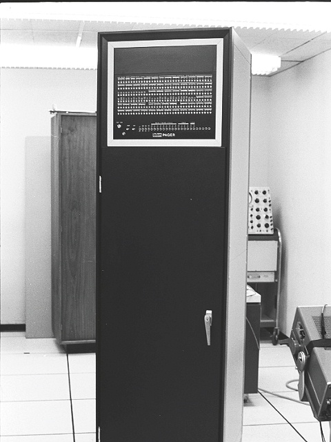 BBN Pager, required to run the Tenex operating system. This equipment implemented paging for the PDP-10 computer.